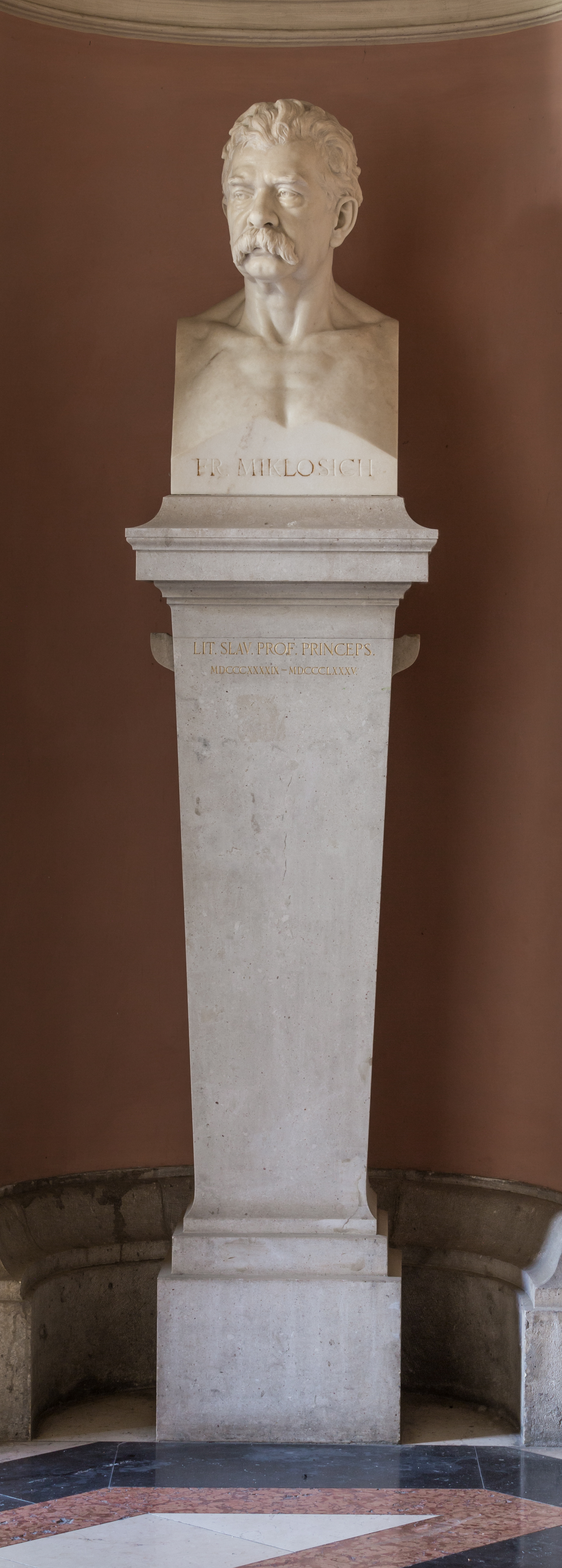 Franz von Miklosich (1813-1891), bust (marble) in the Arkadenhof of the University of Vienna, (Maisel# 55). Artist: Johann Scherpe (1855-1929), unveiled 1897 The making of this work was supported by Wikimedia Austria. For other files made with the support of Wikimedia Austria, please see the category Supported by Wikimedia Österreich.